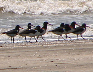 Eurasian Oystercatchers (Haematopus ostralegus). Photo by Pallavi Joshi